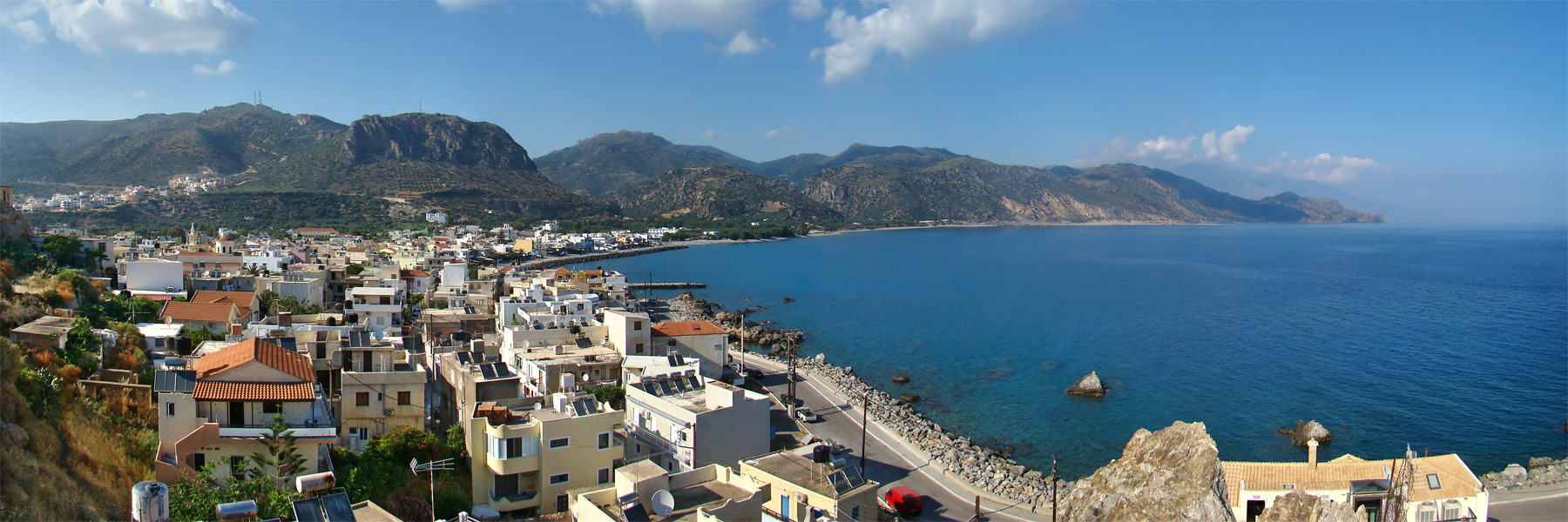 Palaiochora, Crete, Greece. Panoramic view from the ruins of the Venetian Castle.